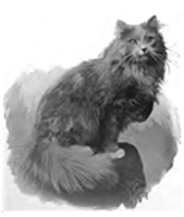 typical Angoras from this time period